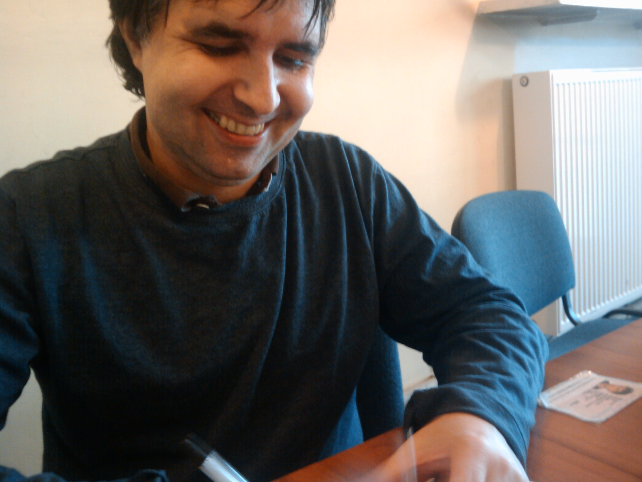 Miłosz Biedrzycki, polish poet